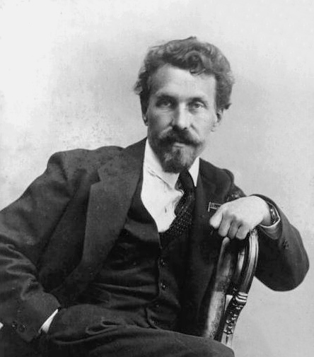 Alexei Rykov, a Soviet statesman.